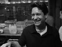 photo of Vinson Valega